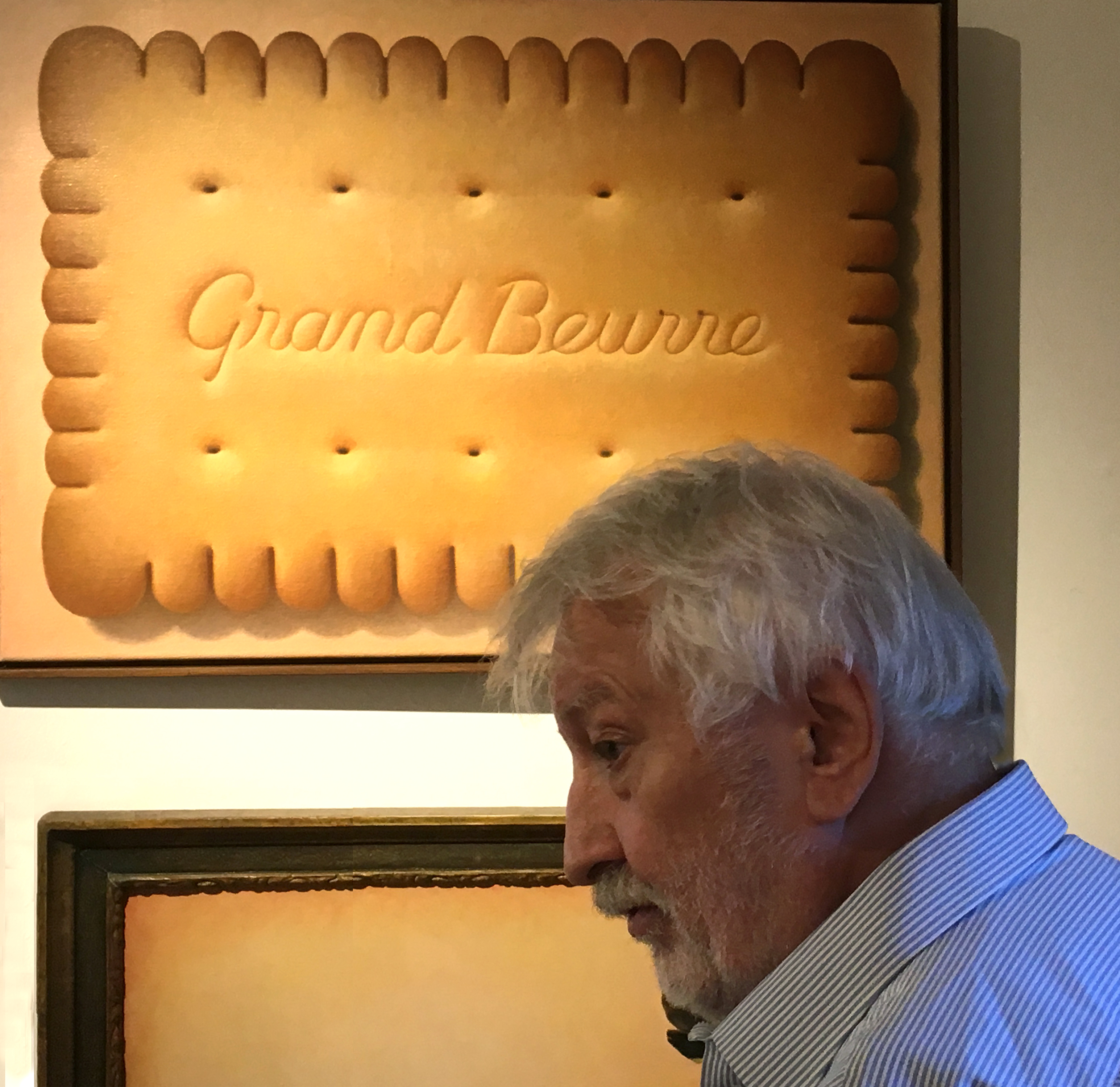 Georg Erhardt at his last exhibition in Zollikon, Switzerland, 2018